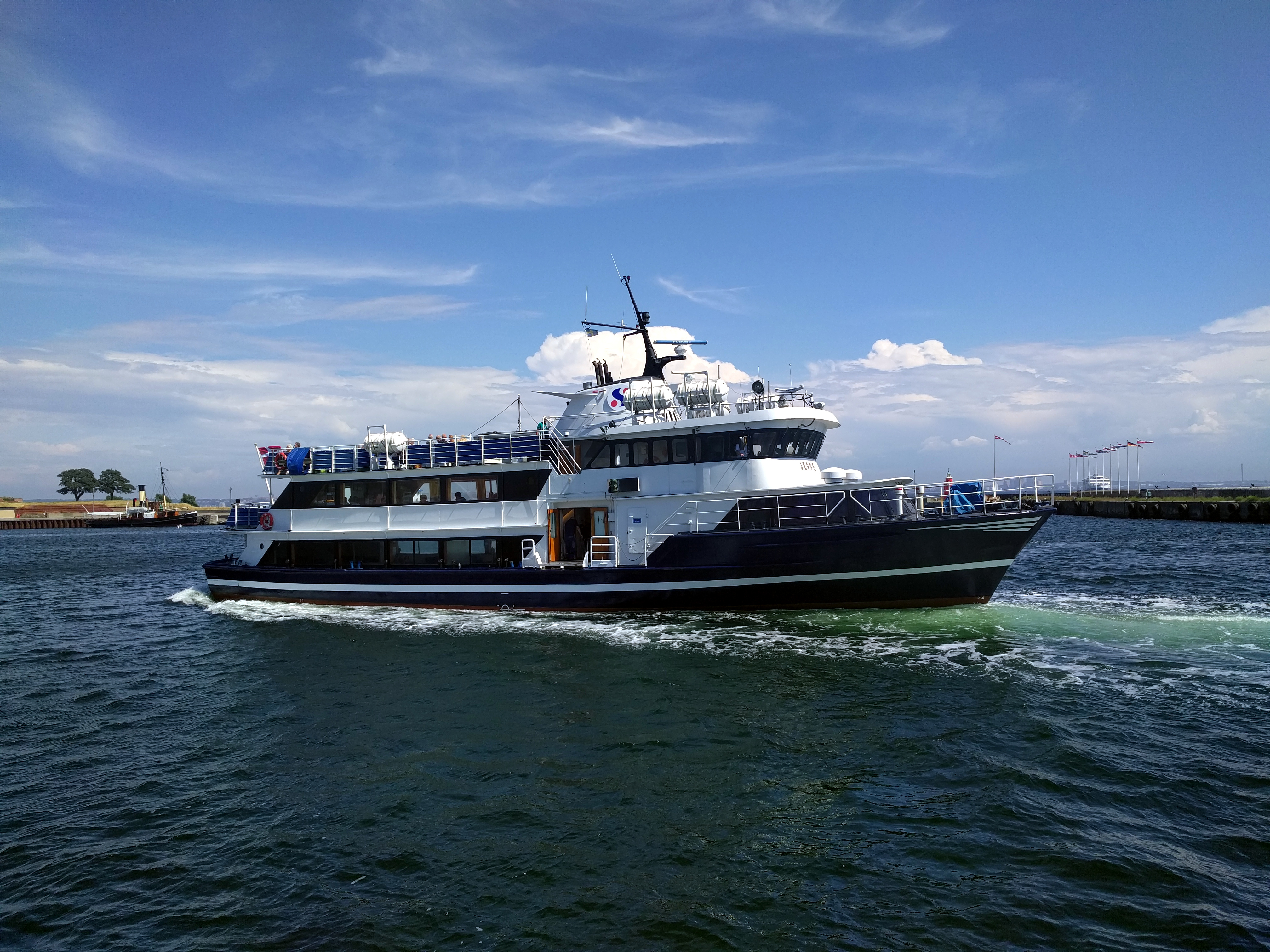 M/S Jeppe in Helsingor Harbour